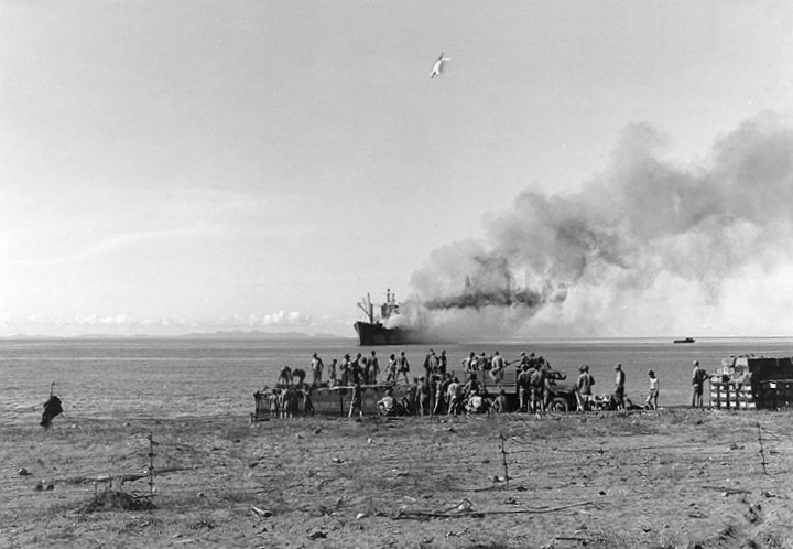 The U.S. Navy cargo ship USS Alchiba (AK-23) aground and afire off Lunga Point, Guadalcanal, circa late November 1942. She had been torpedoed by the Japanese submarine I-16 on 28 November. Men are handling cargo on the beach, possibly assisting in unloading Alchiba while she was fighting her fires. Note the barbed wire fencing in the foreground.